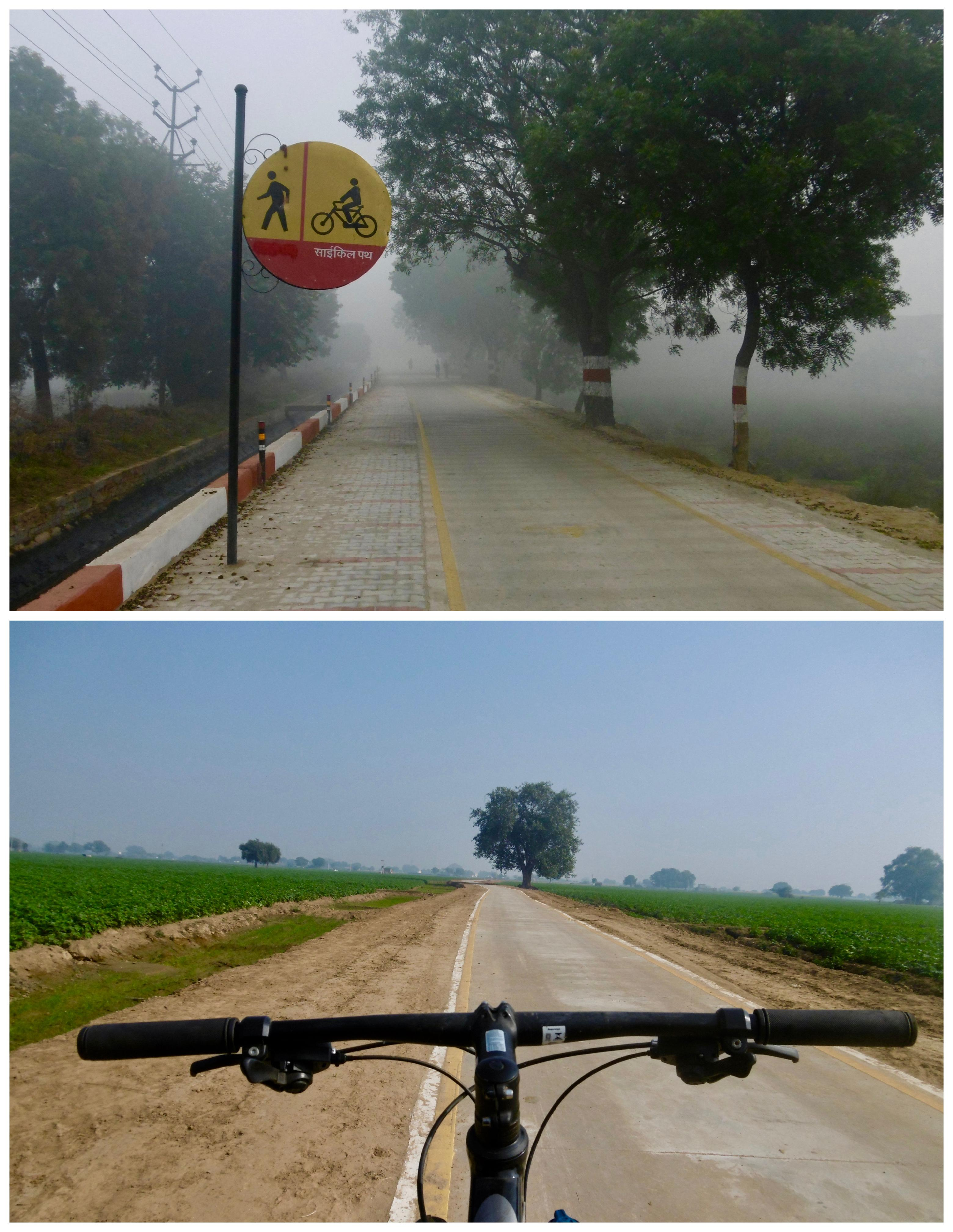 Sarsai Nawar Cycle Highway In Uttar Pradesh India